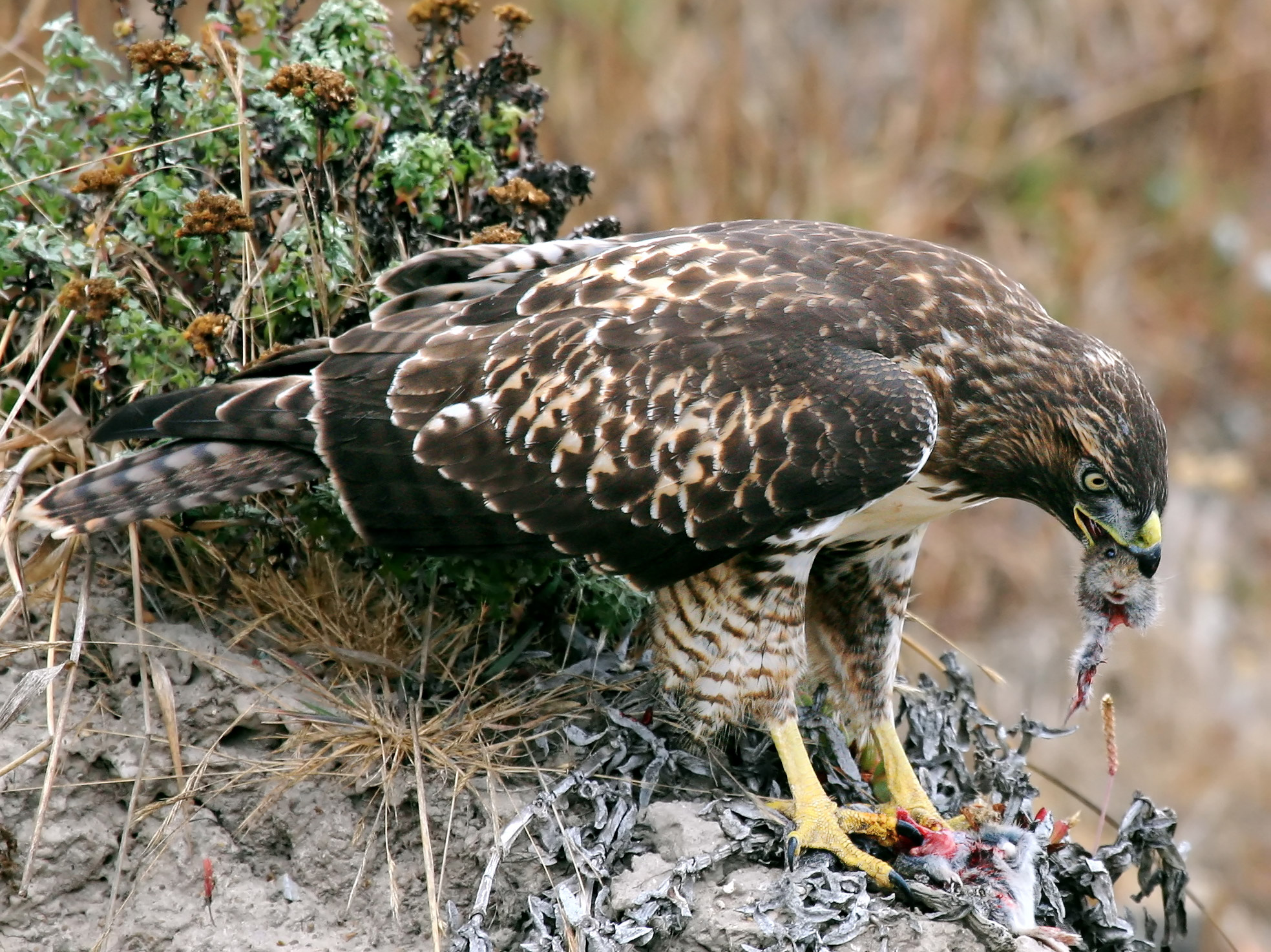 A hawk (juvenile red-tailed hawk — Buteo jamaicensis) eating its prey (California meadow vole — Microtis californicus).[1].